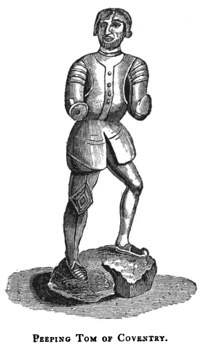 Drawing of Peeping Tom's wooden statue in Conventry by W.Reader (published 1826)